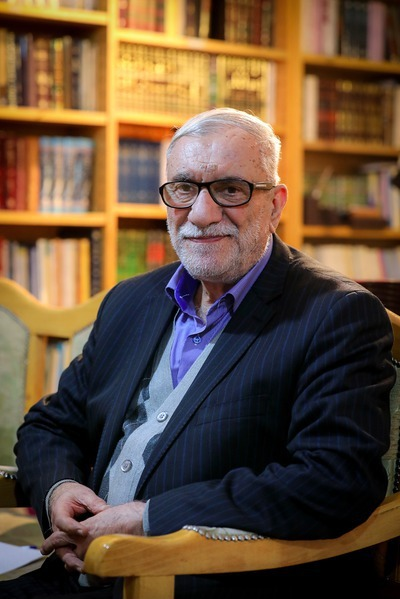 Mohammad Ali Azarshab